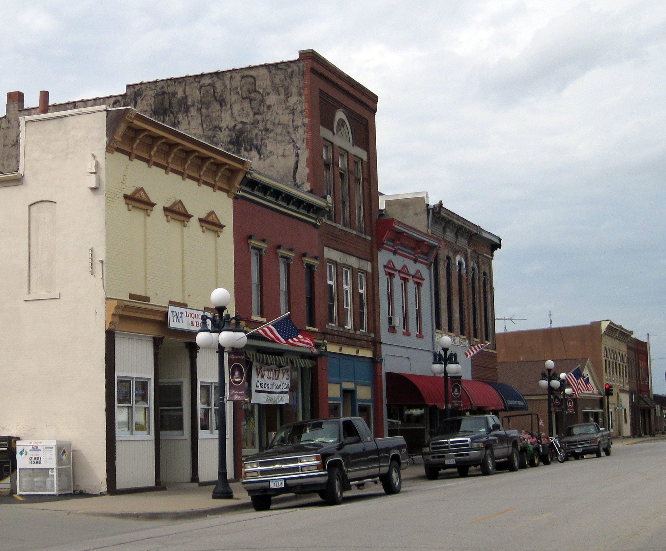 Sigourney